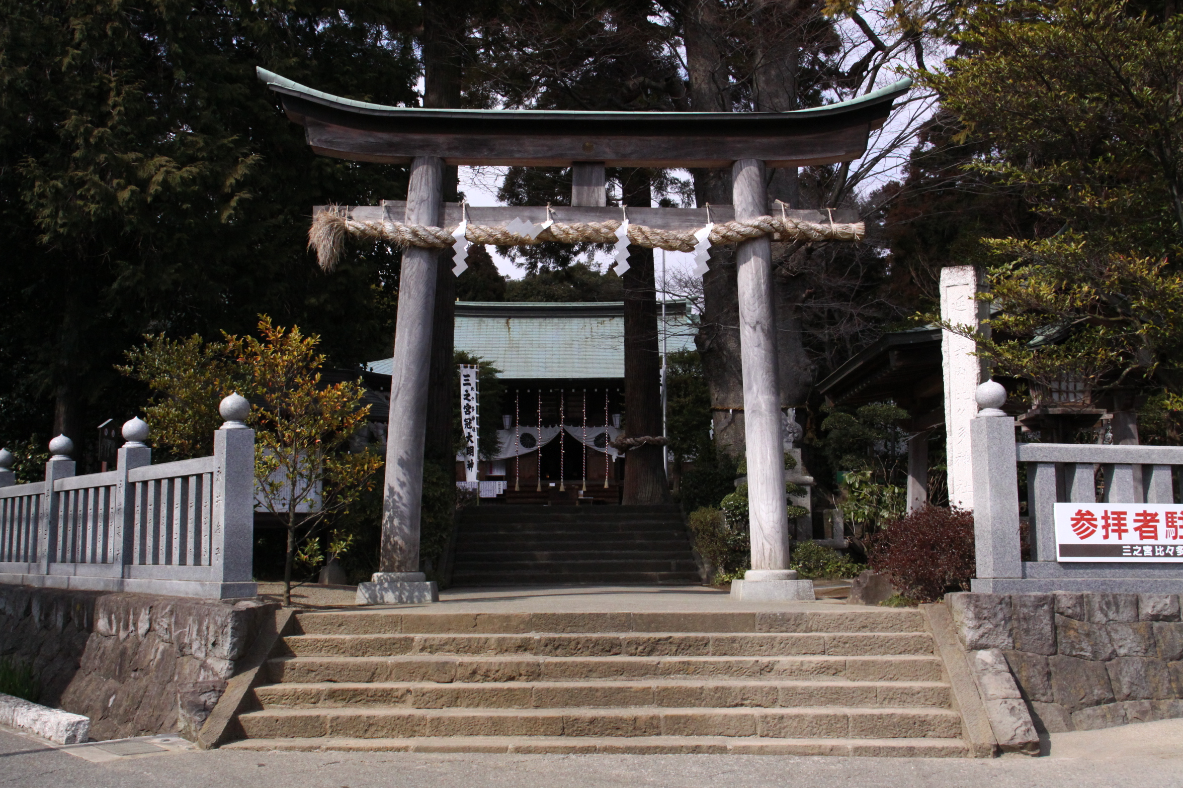 HIbita jinja Gate